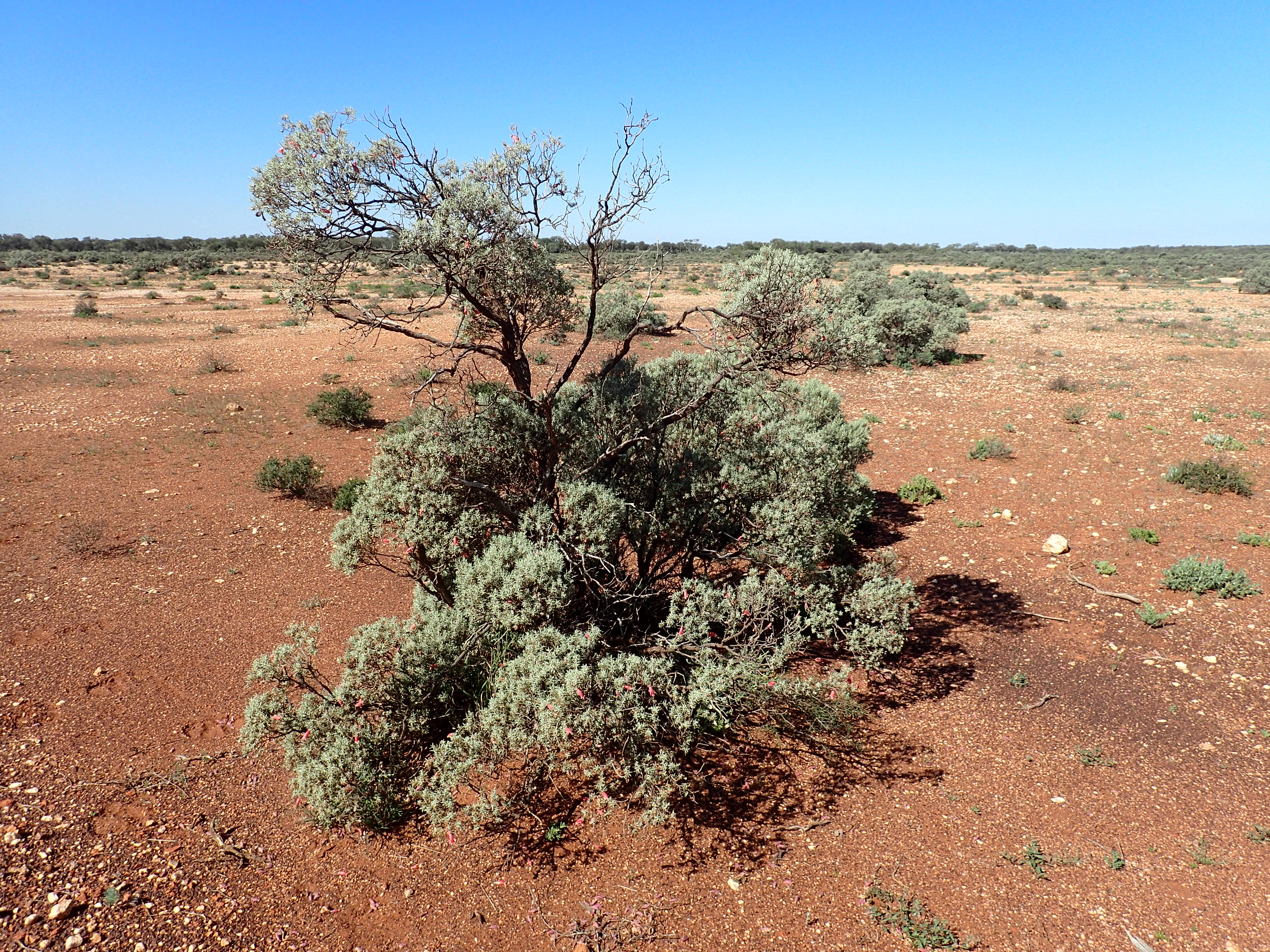 Eremophila pterocarpa acicularis growing 27km along Neds Creek Road